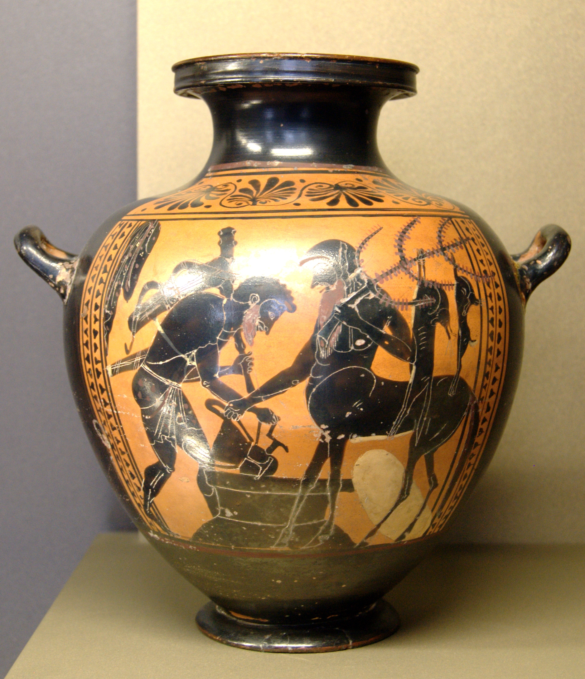 Heracles at Pholus. Attic black-figured hydria (kalpis), 520–510 BC.